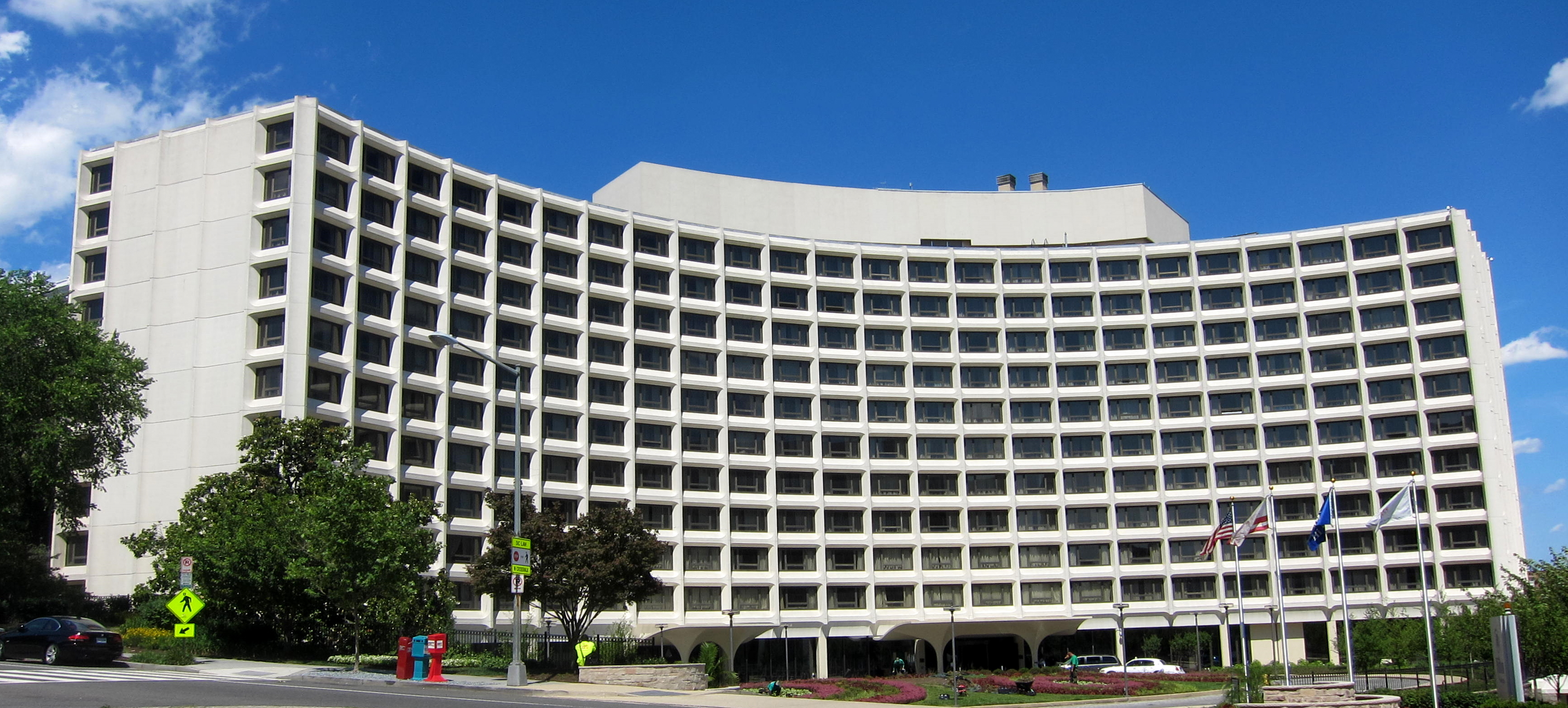 The Hilton Washington, site of the 1981 Reagan assassination attempt, located at 1919 Connecticut Avenue, N.W., in the Adams Morgan neighborhood of Washington, D.C. Designed by William B. Tabler and constructed between 1962–1965, the hotel is an example of brutalist architecture.